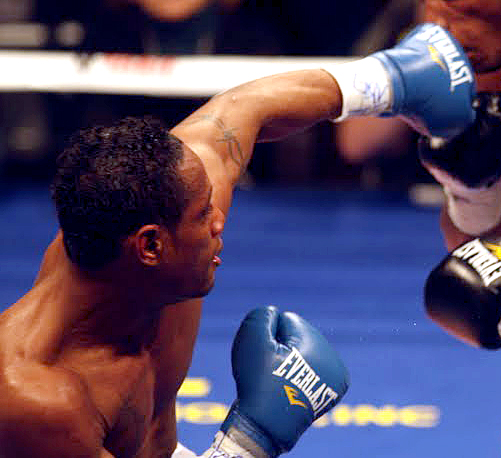 Grady Brewer fighting against Erislandy Lara at the Hard Rock Hotel and Casino on January 29, 2010.